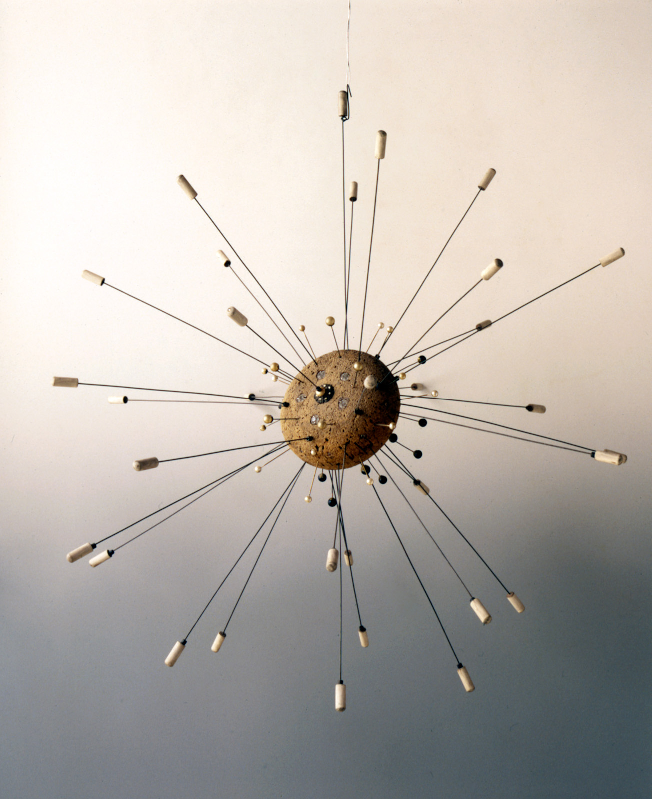 Harmonia estel·lar, artwork by artist Leandre Cristòfol